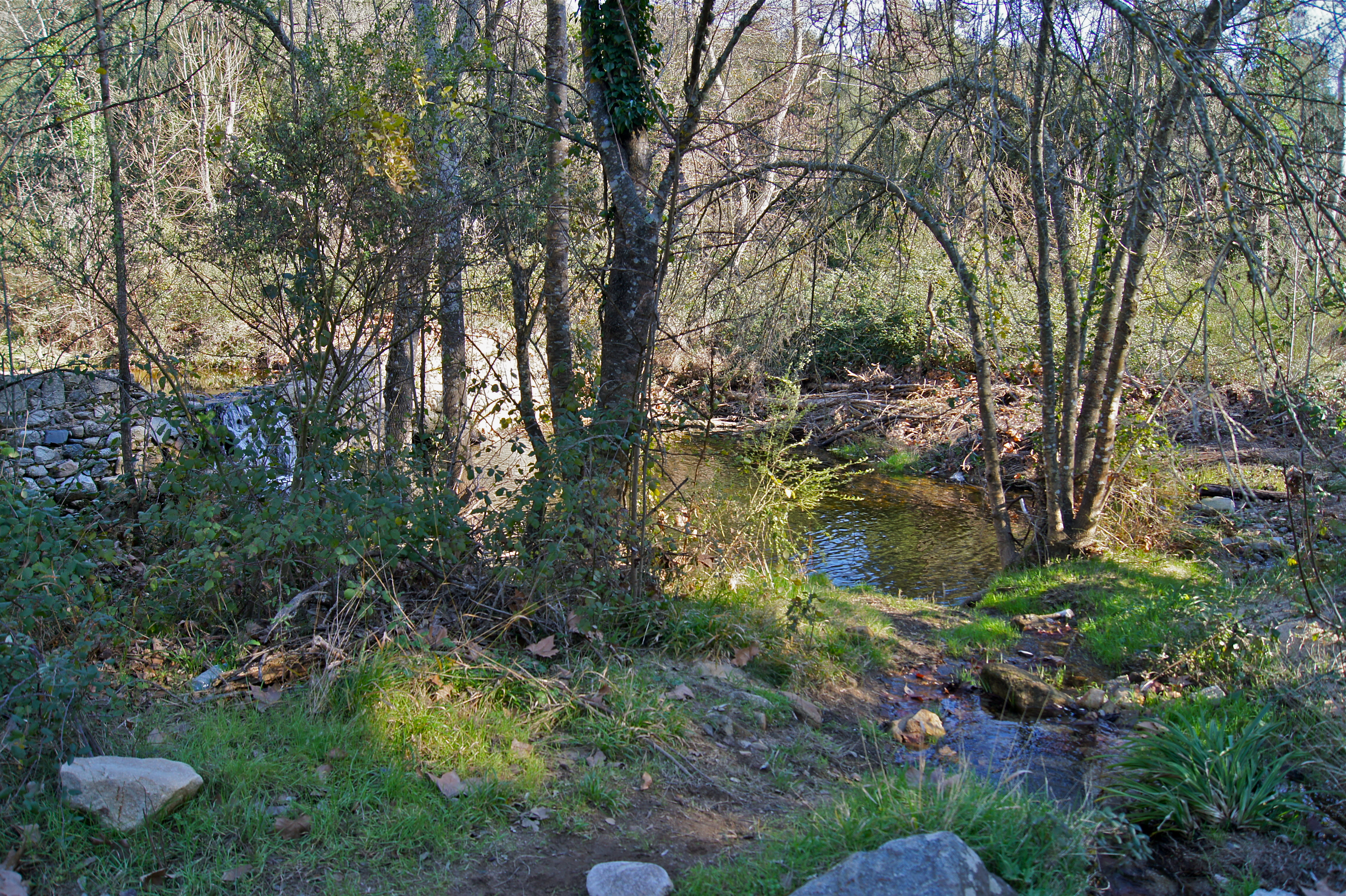 Calonge, Catalonia: Confluence of the Rec del Bassal Gran and the Riera dels Molins